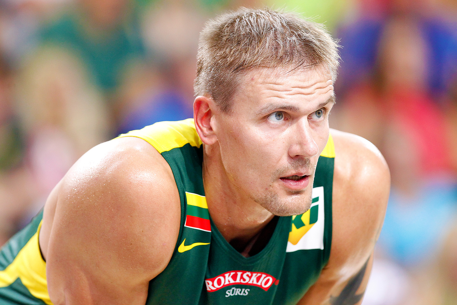 Lithuanian basketball player Robertas Javtokas